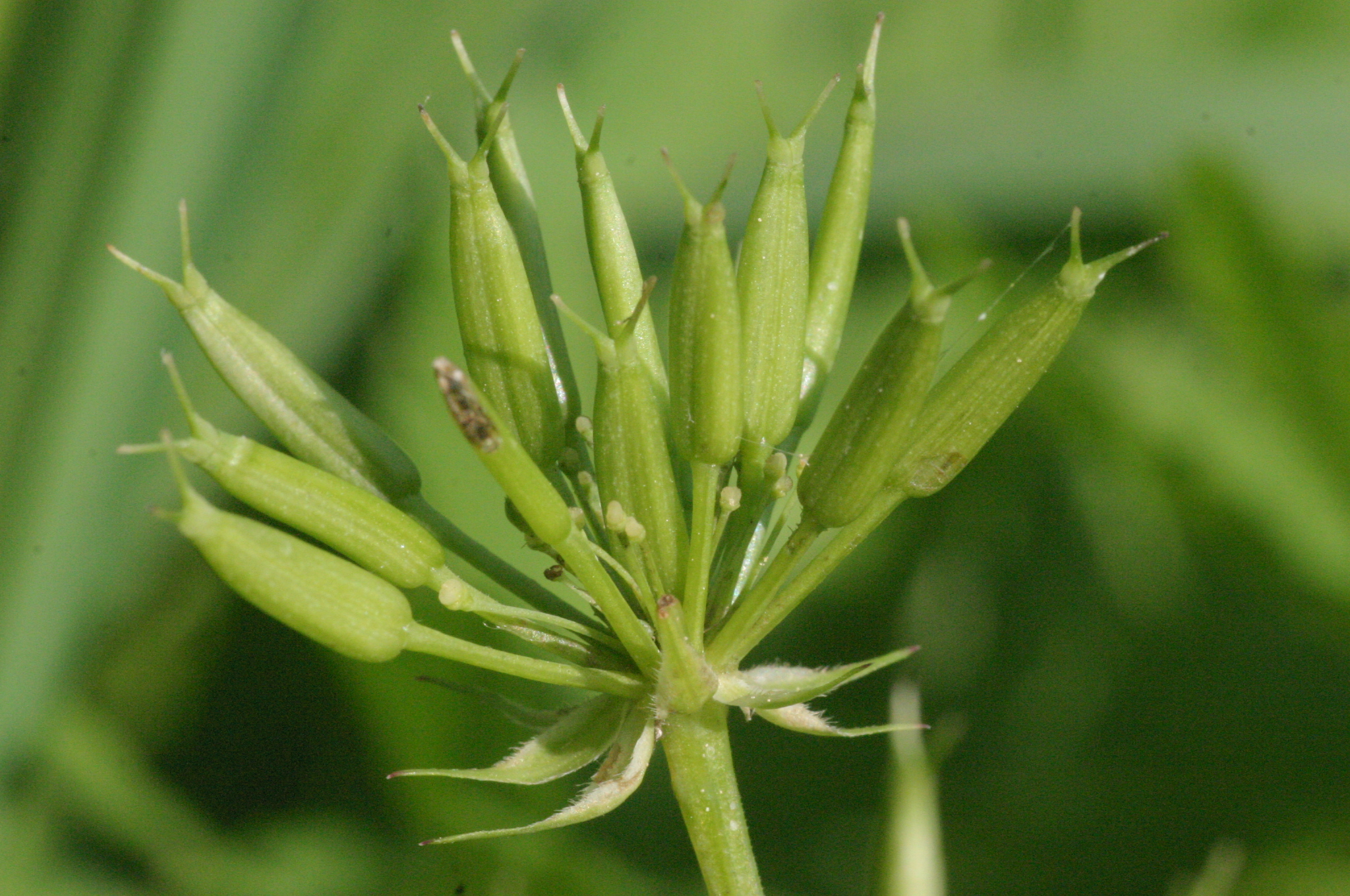 Chaerophyllum hirsutum